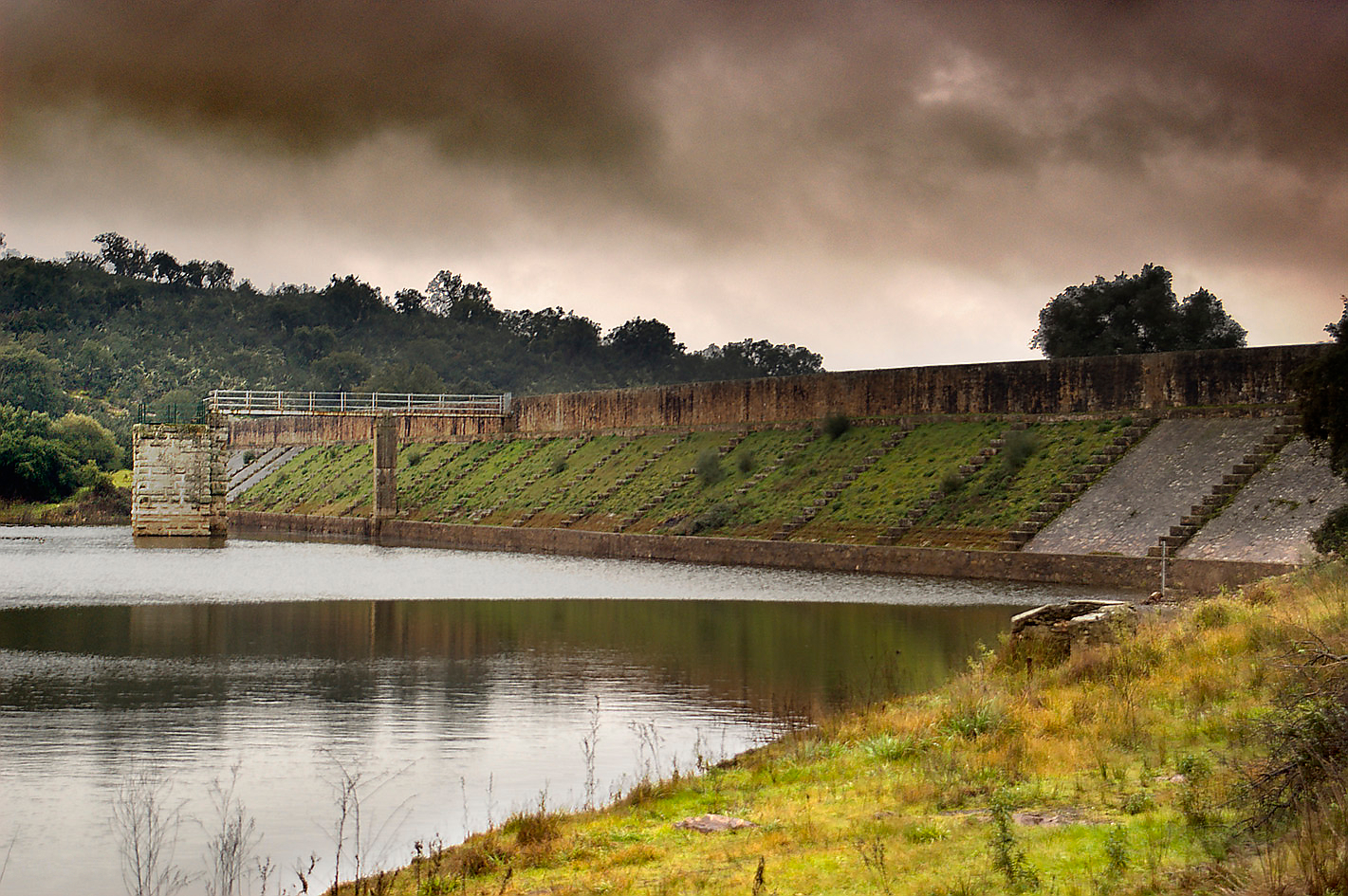 Roman Cornalvo dam near Mérida, Extremadura, Spain, which was founded by the Romans. Earth dam with retaining wall